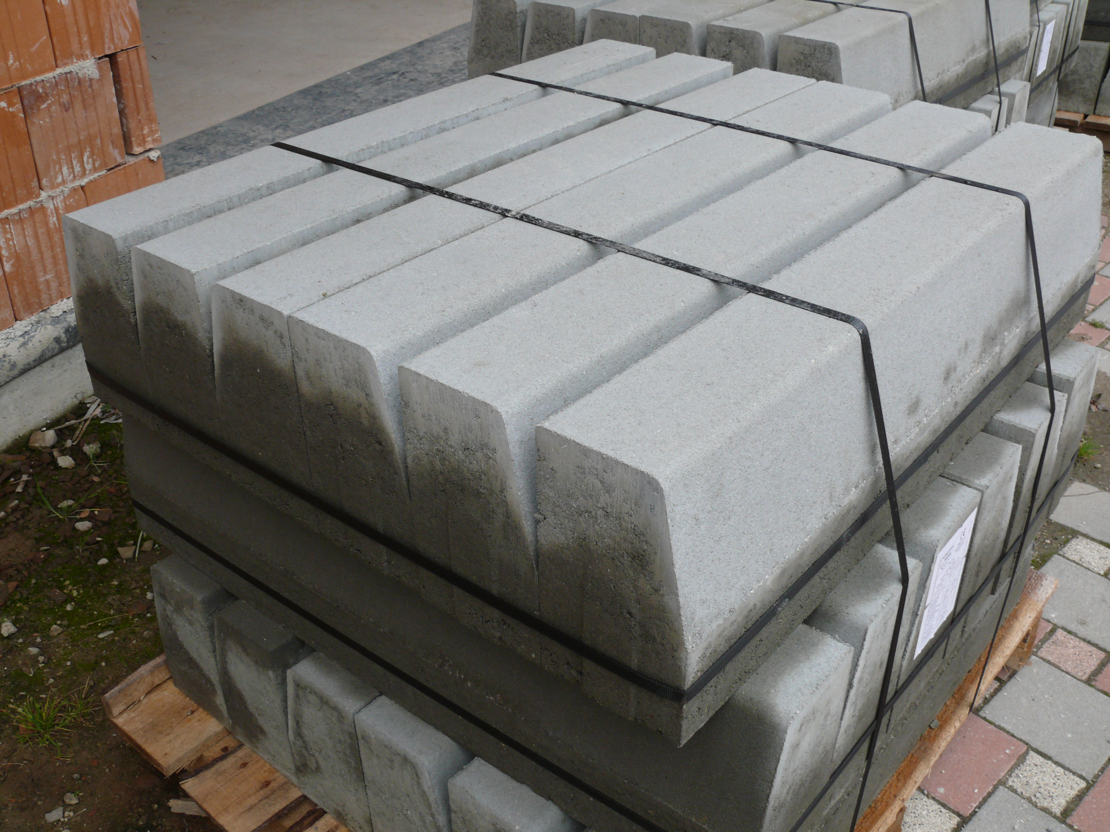 Concrete Curbs - PREFA Sučany - Slovakia